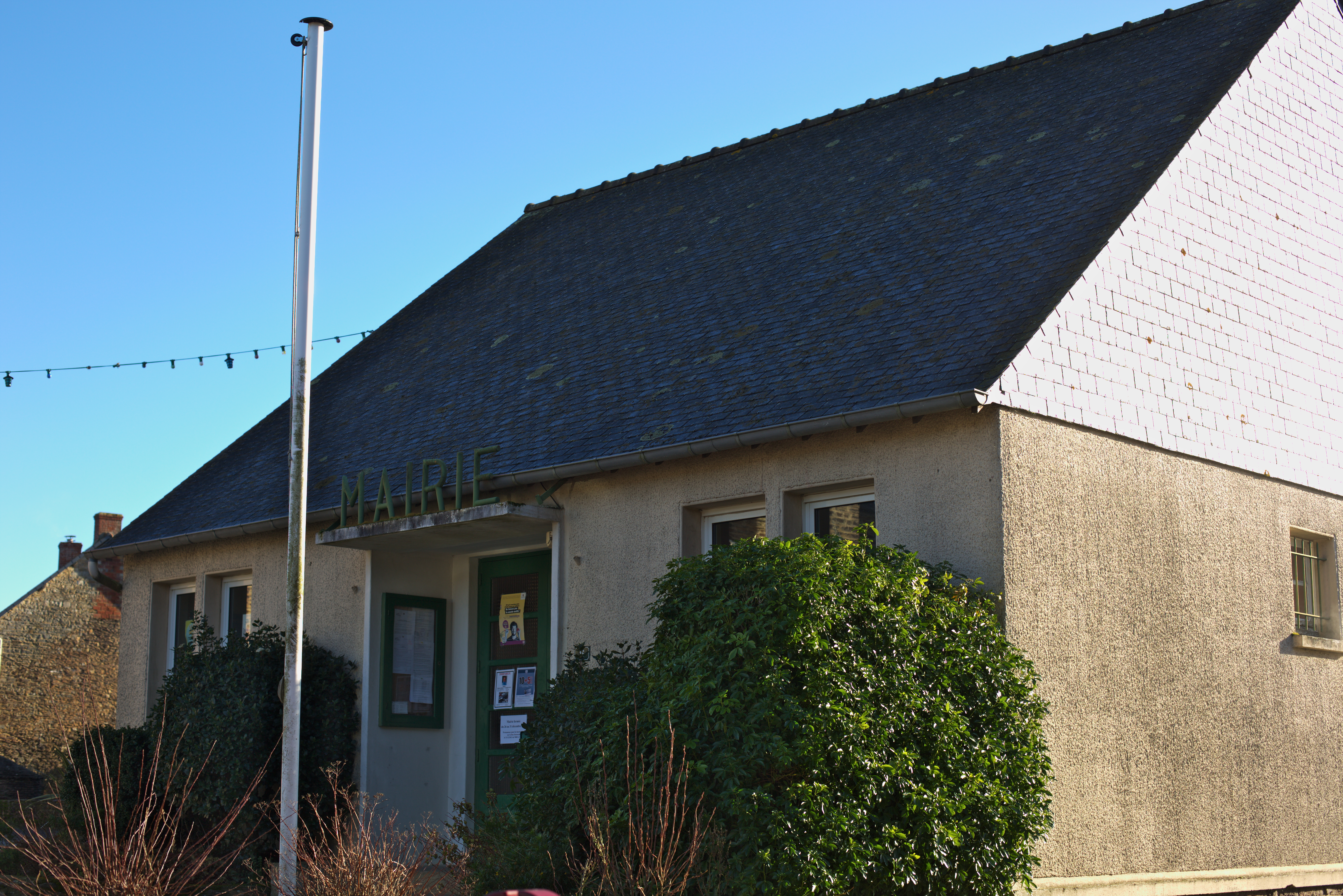 Town hall of Le Petit-Fougeray.